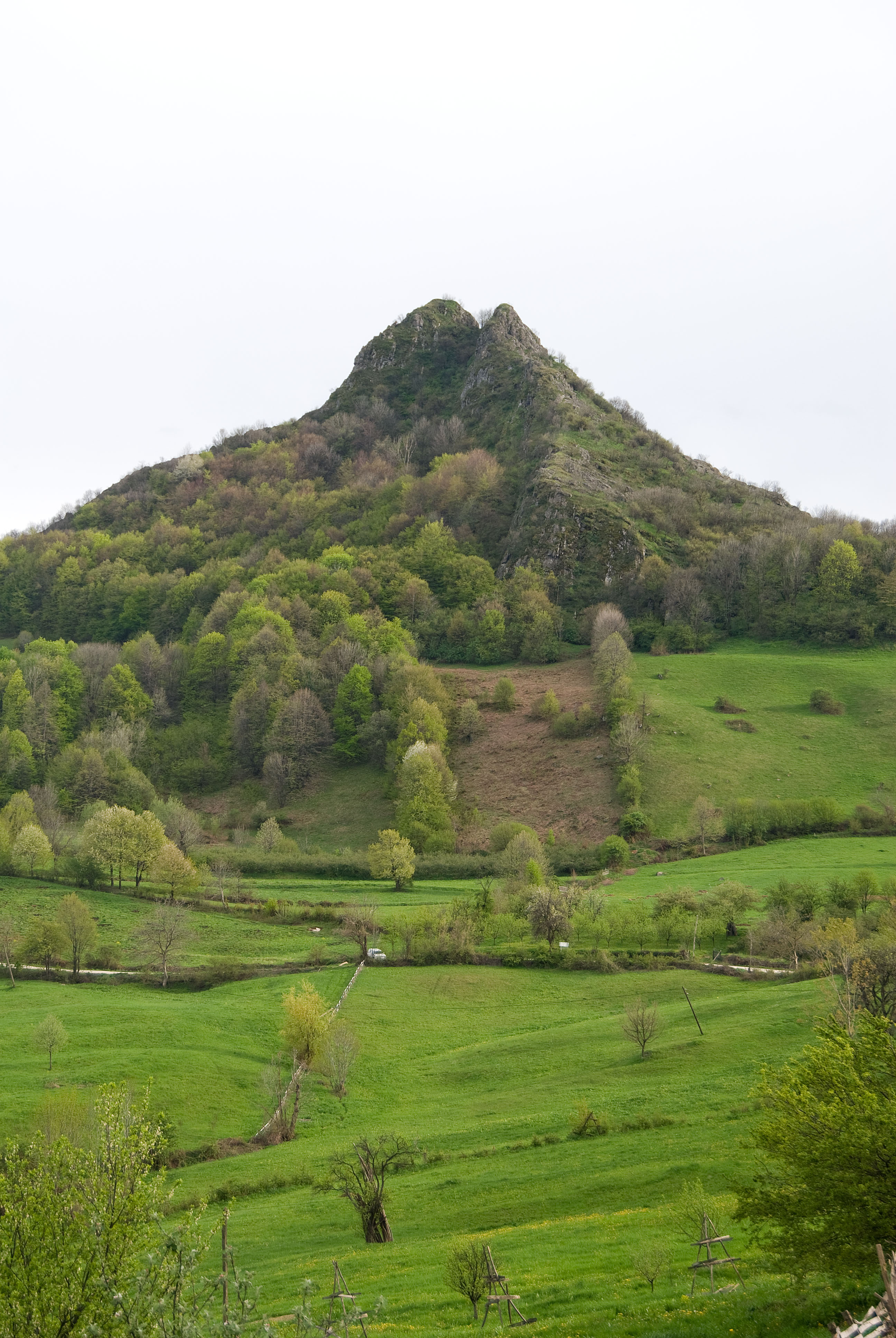 Mount Ostrvica, Serbia